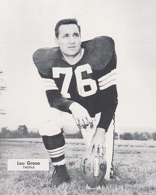 A promotional image of Cleveland Browns player Lou Groza.